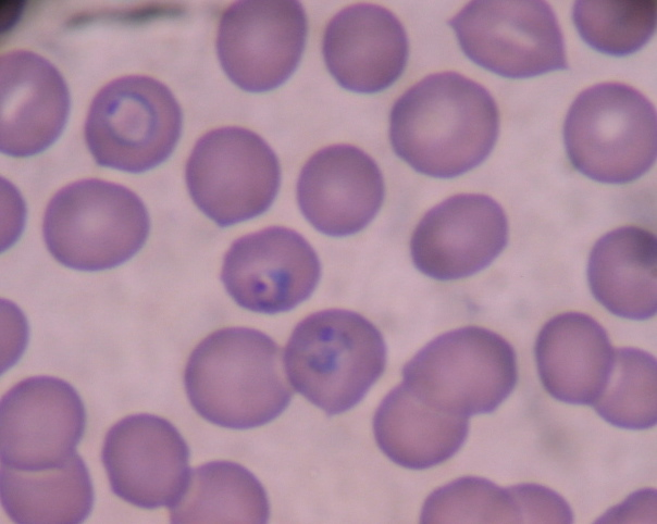 Plasmodium sp ring stage, blood smear.